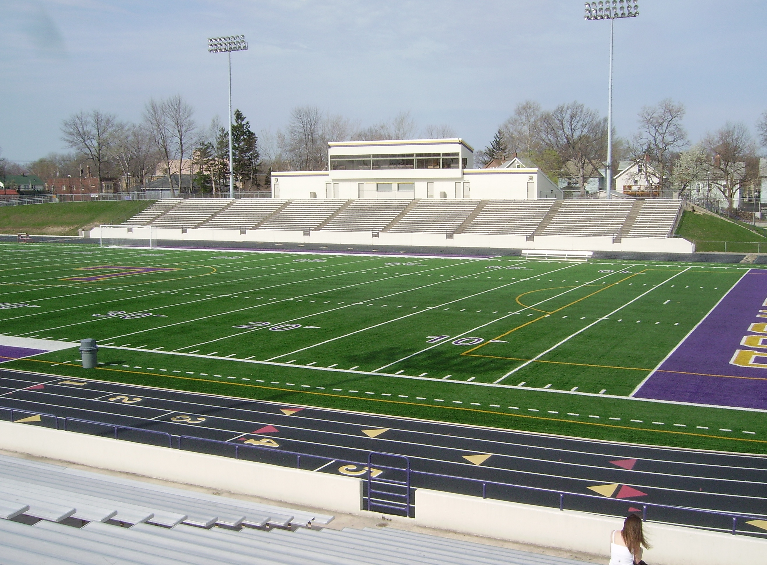 Lakewood High School Stadium, Lakewood, Ohio, from Bunts road grandstand. This field is also used for home games by nearby Saint Edward High School.